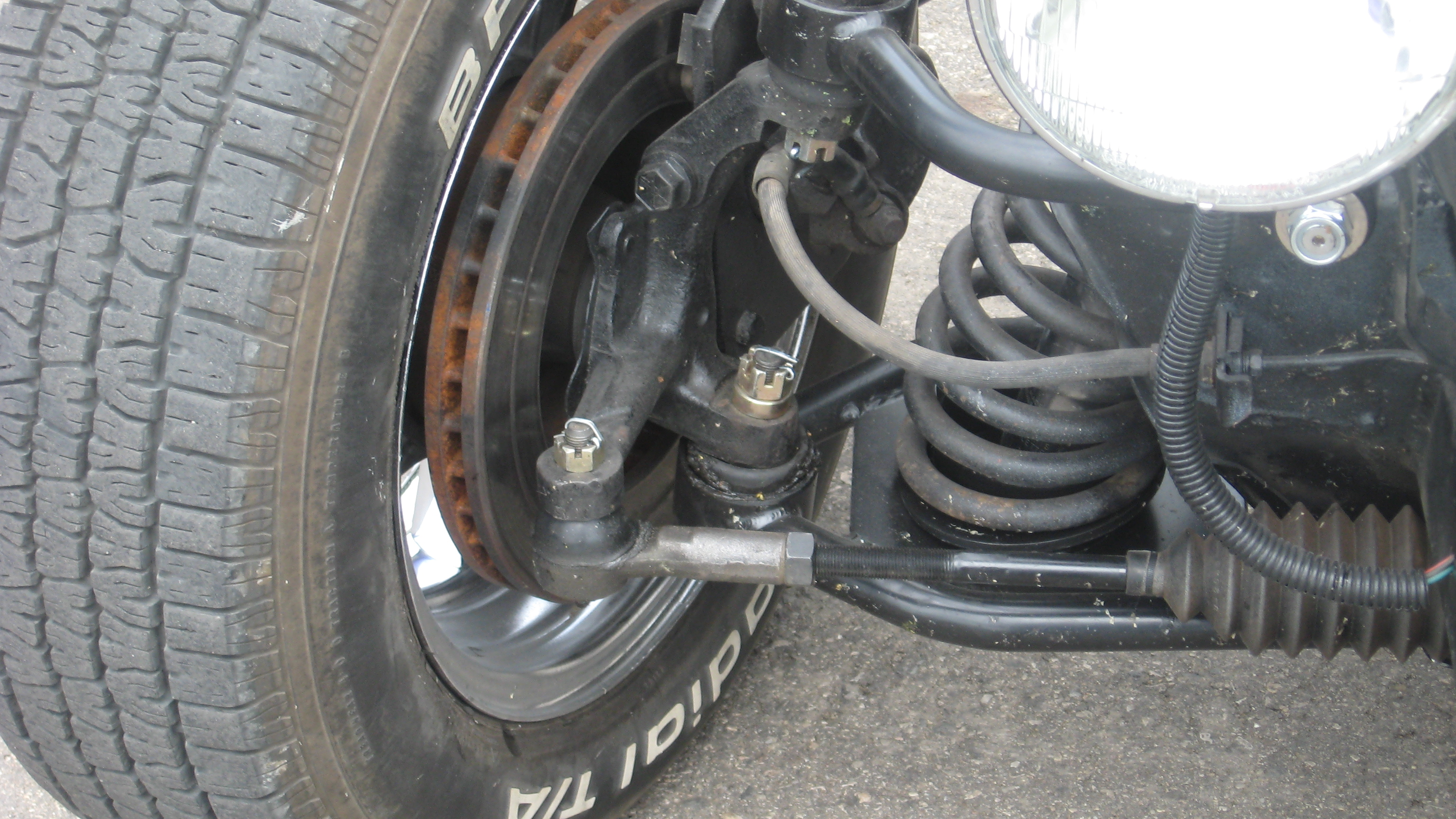 Coil spring detail on a '32 Ford, shot at local car show/swap meet